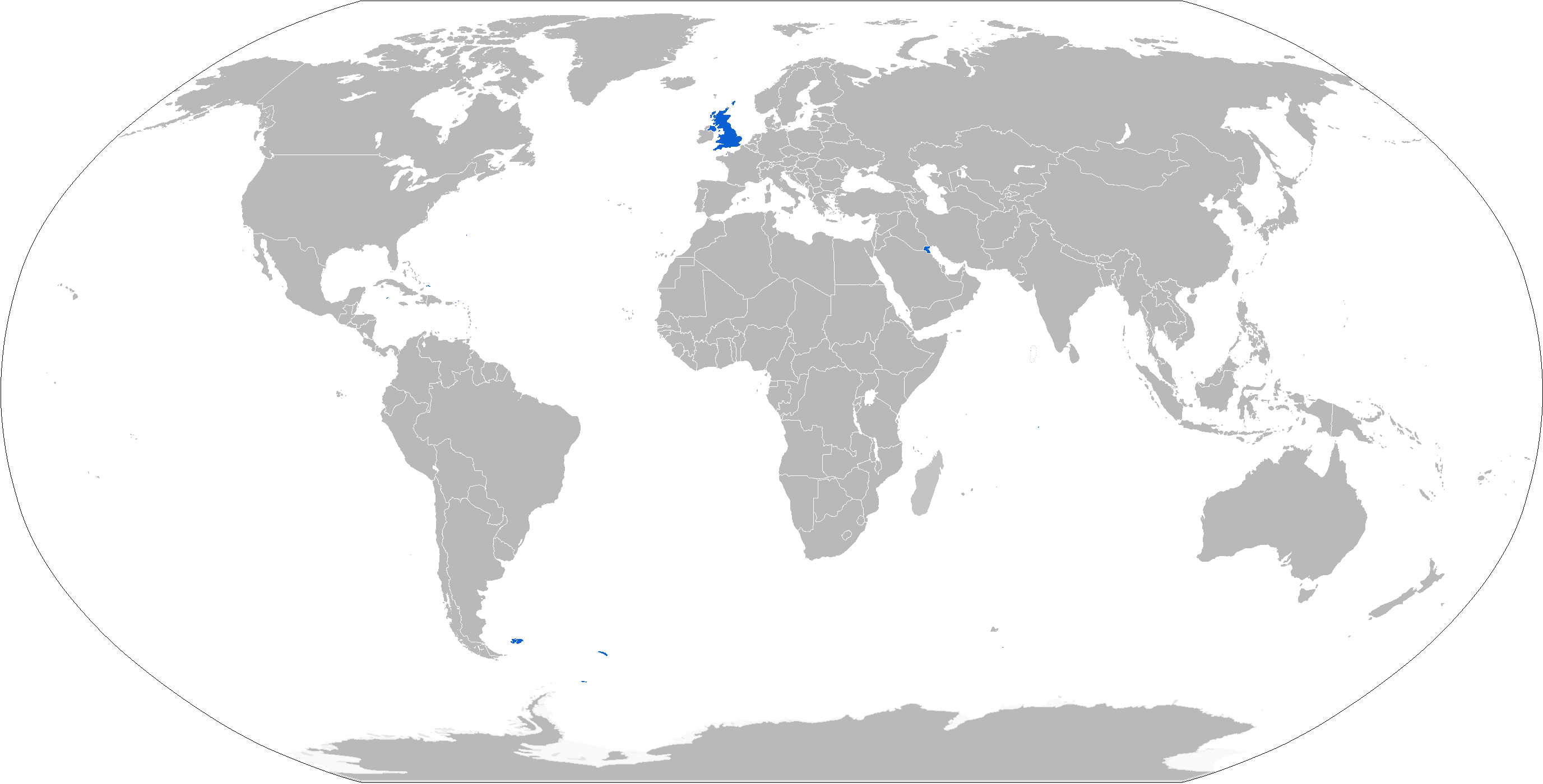 Map of Warrior IFV operators in blue